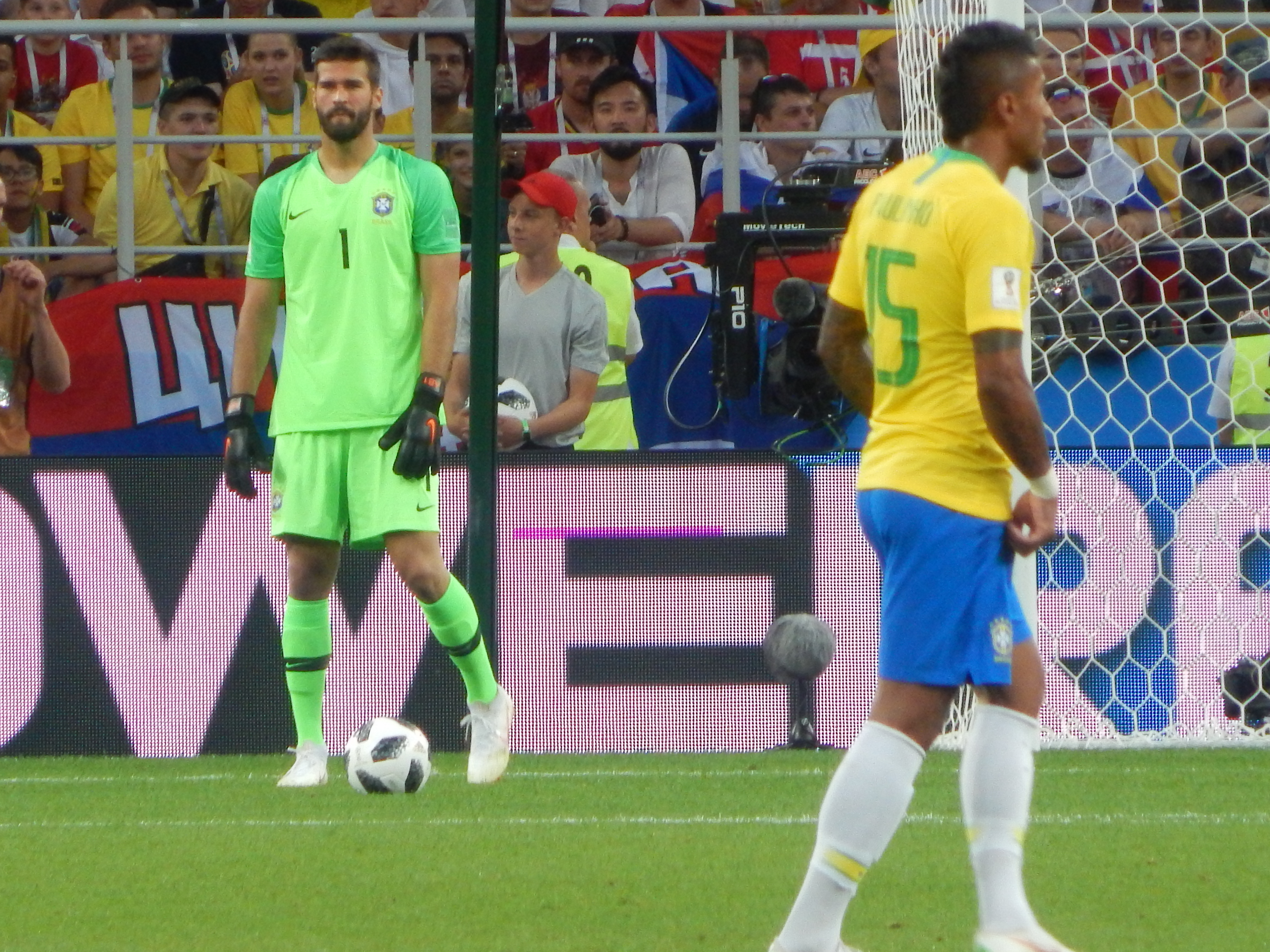 FIFA World Cup 2018, Group E, Serbia vs. Brazil